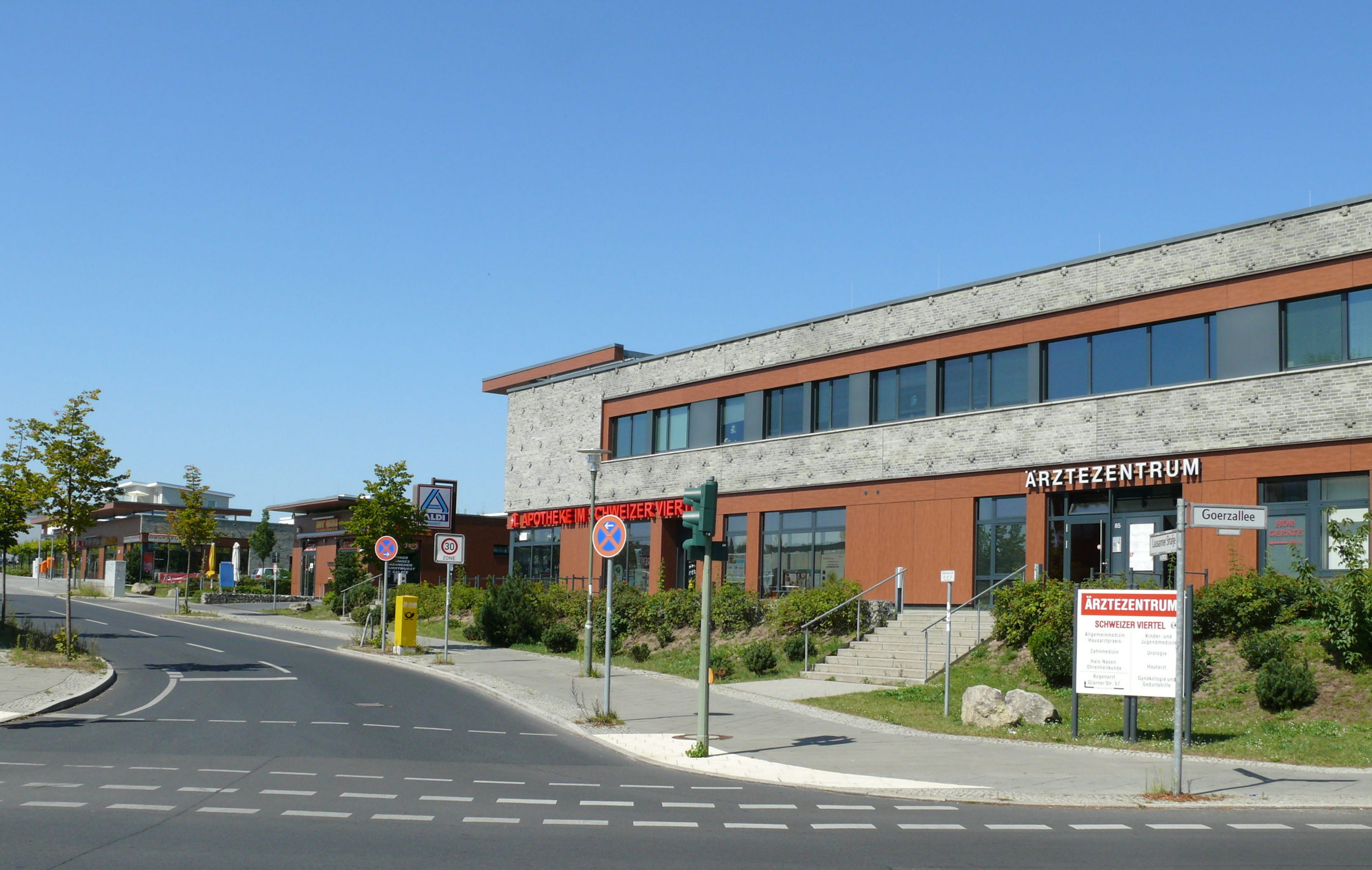 Berlin-Lichterfelde Lausanner Straße Schweizer Viertel